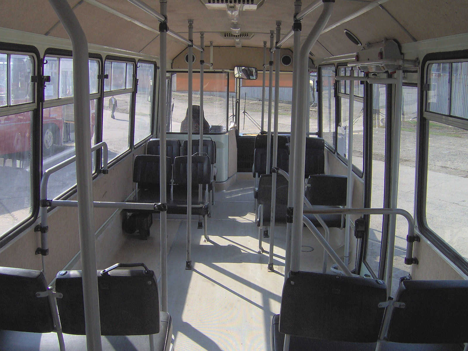 Interior of historical bus Karosa B 831 in Brno, Czech Republic.